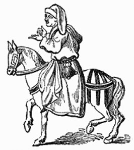 John Ball (c. 1338 – 15 July 1381) was an English Lollard priest who took a prominent part in the Peasants' Revolt of 1381.